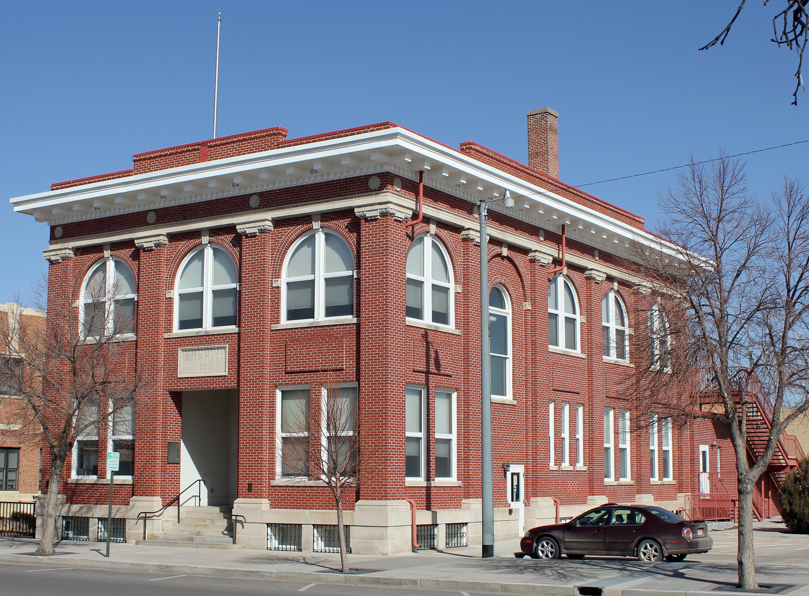 The Fort Morgan City Hall, located at 110 Main Street in Fort Morgan, Colorado. The building is listed on the National Register of Historic Places.